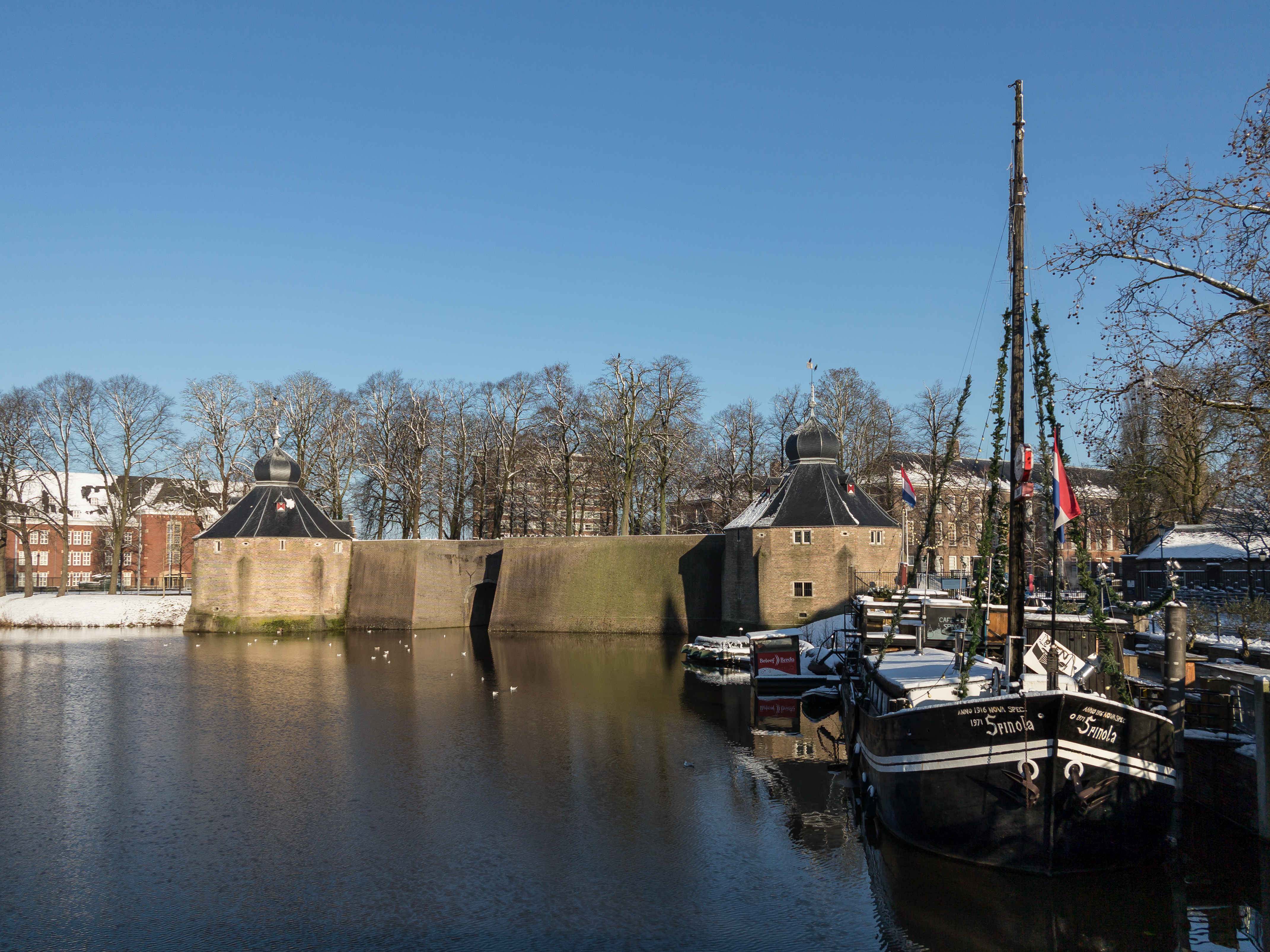 Breda, monumental port het Spanjaardsgat